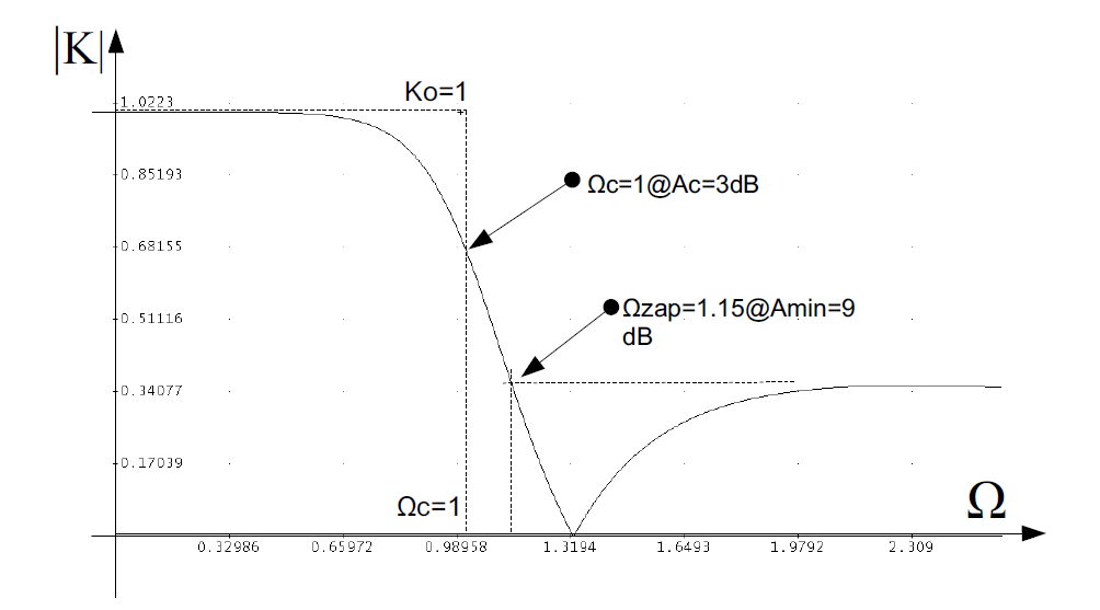 Characteristic of Chebyshev IItype Filter order N=3 – exapmle.